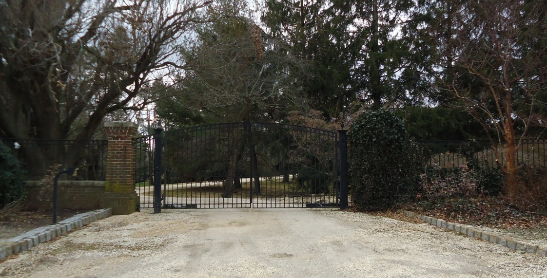 Driveway and gate at an estate in Rumson, New Jersey.